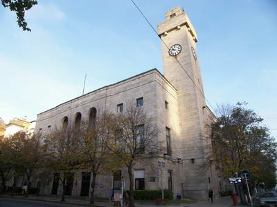 City Hall, Mar del Plata. Designed by Alejandro Bustillo and built in 1938.